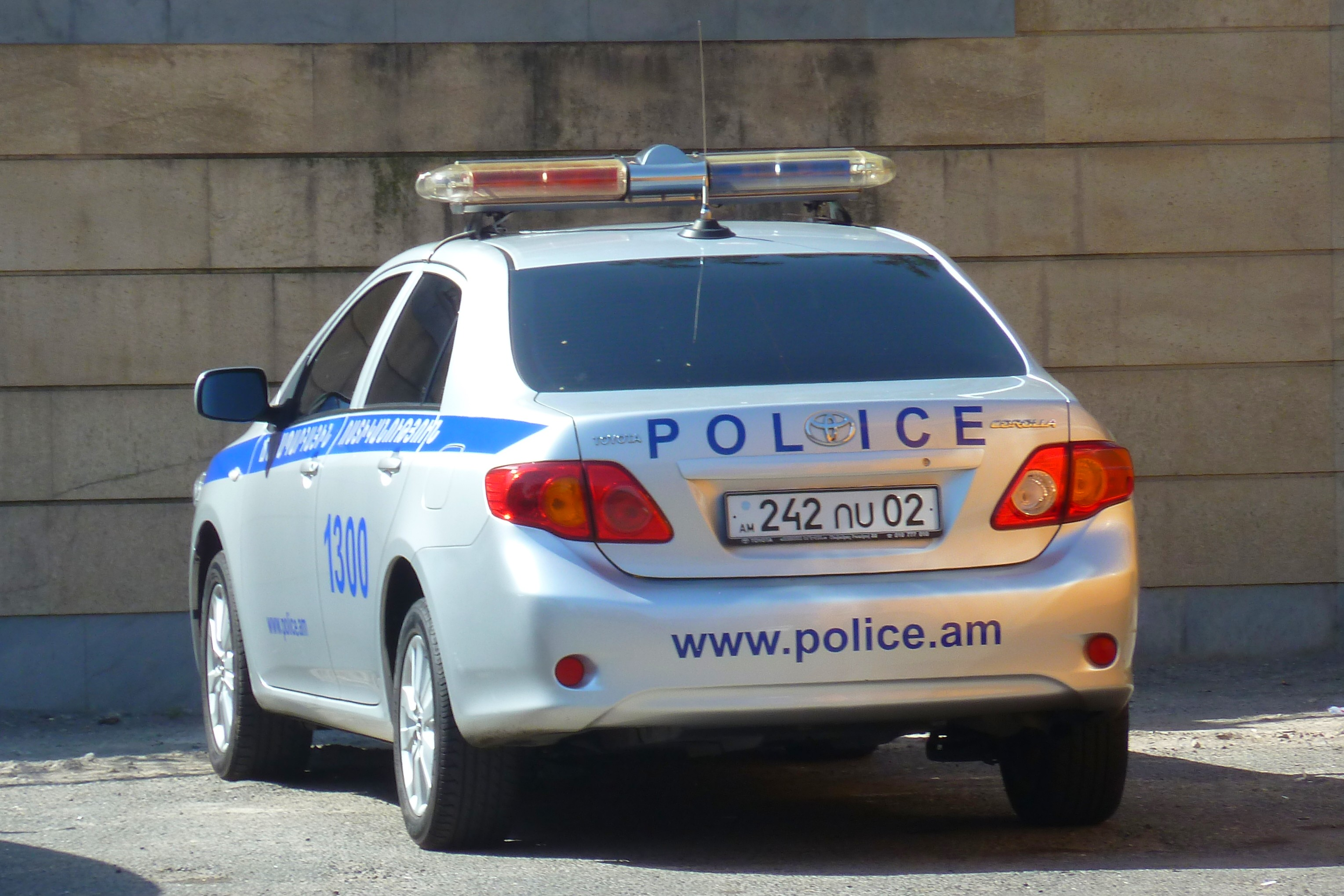 Toyota Corolla police car in Yerevan, Armenia